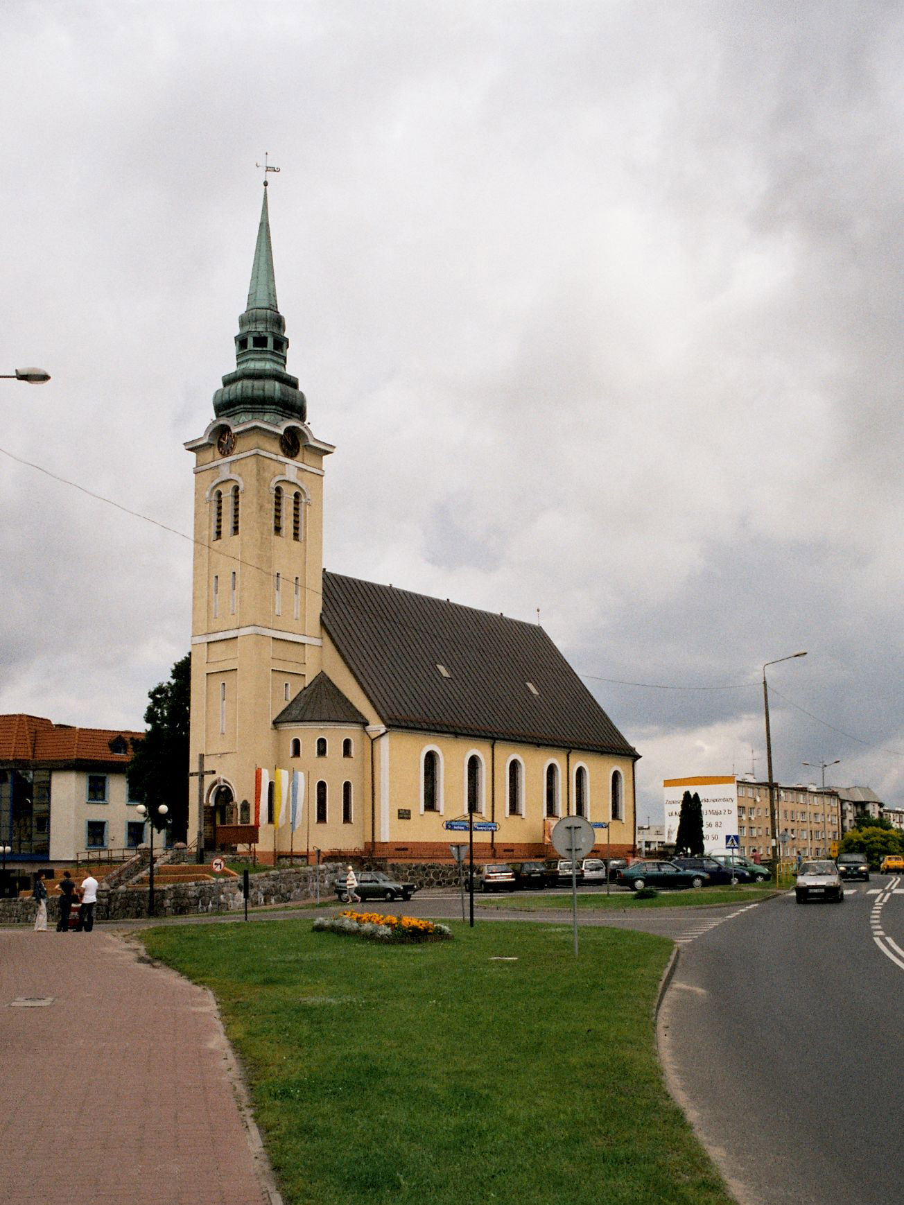 Saint Mary of Help church in Miastko